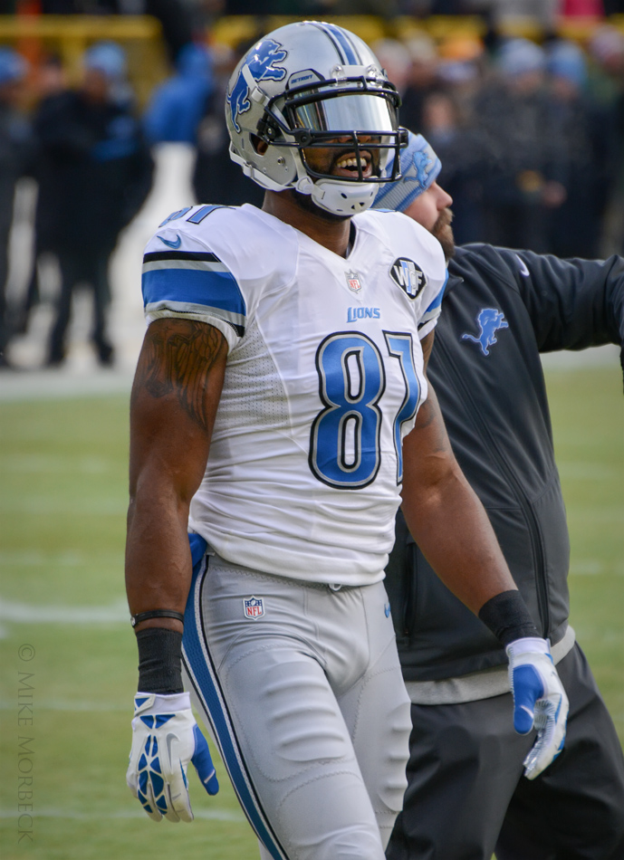 Detroit Lions wide receiver, Calvin Johnson, playing against the Green Bay Packers on December 28, 2014.